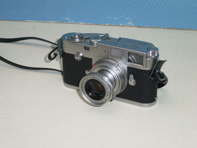 Early Leica M2 with rewind button, and 2.8/50 mm Elmar lens